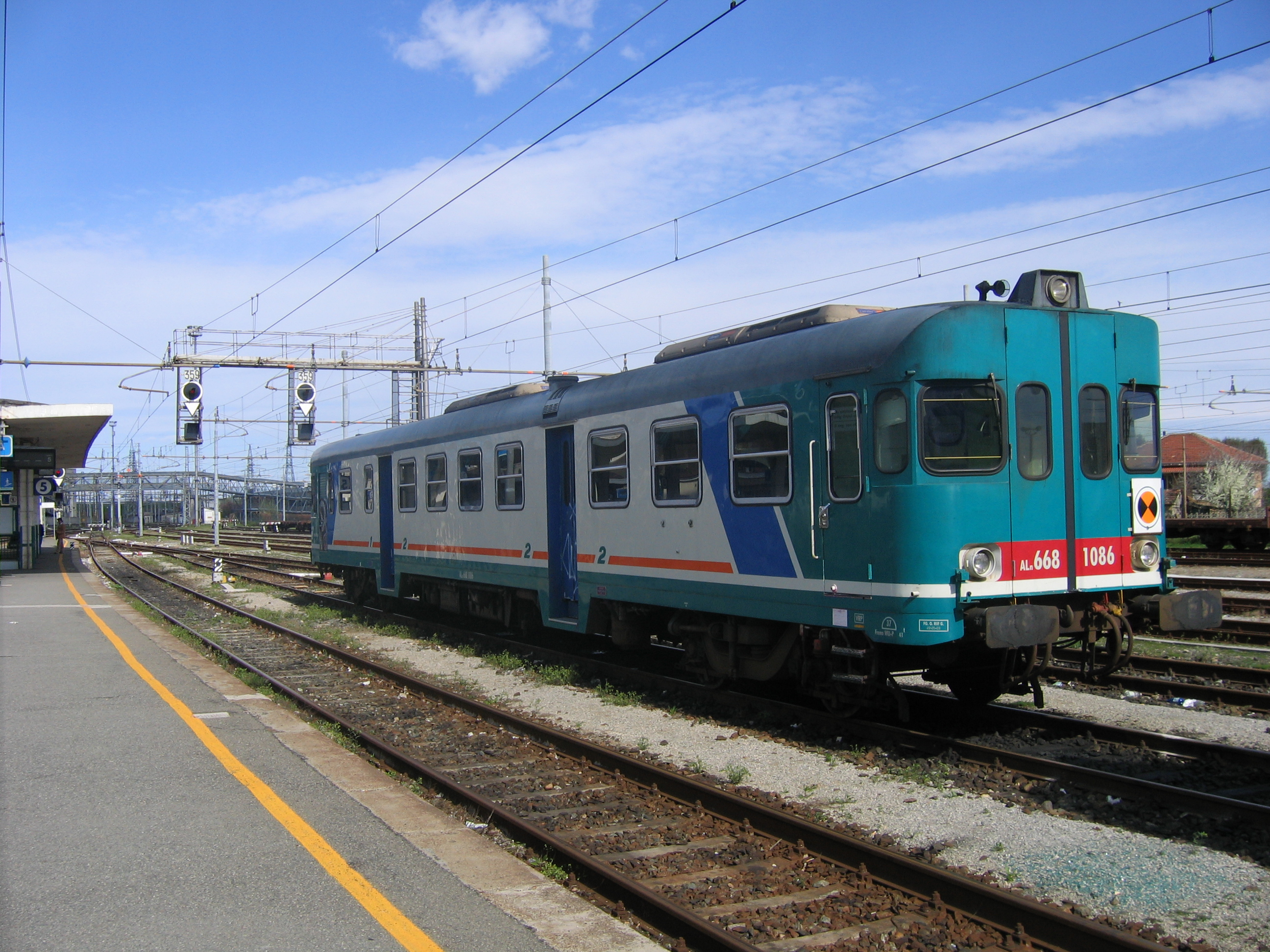 ALn 668.1086, built by Fiat Ferroviaria. Santhià (TO), Italy